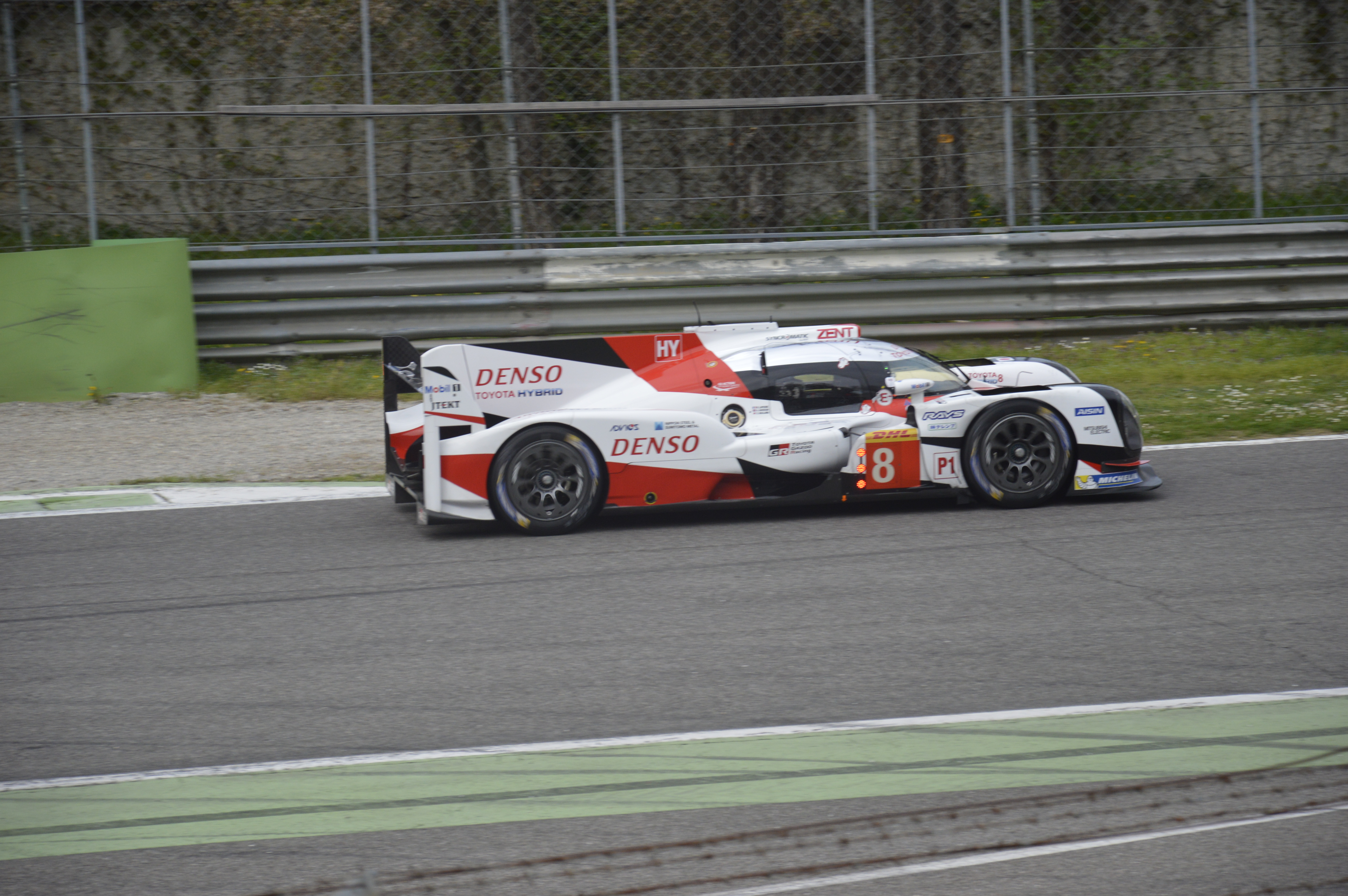 Toyota TS050 2017 in action during 2017 wec prologue